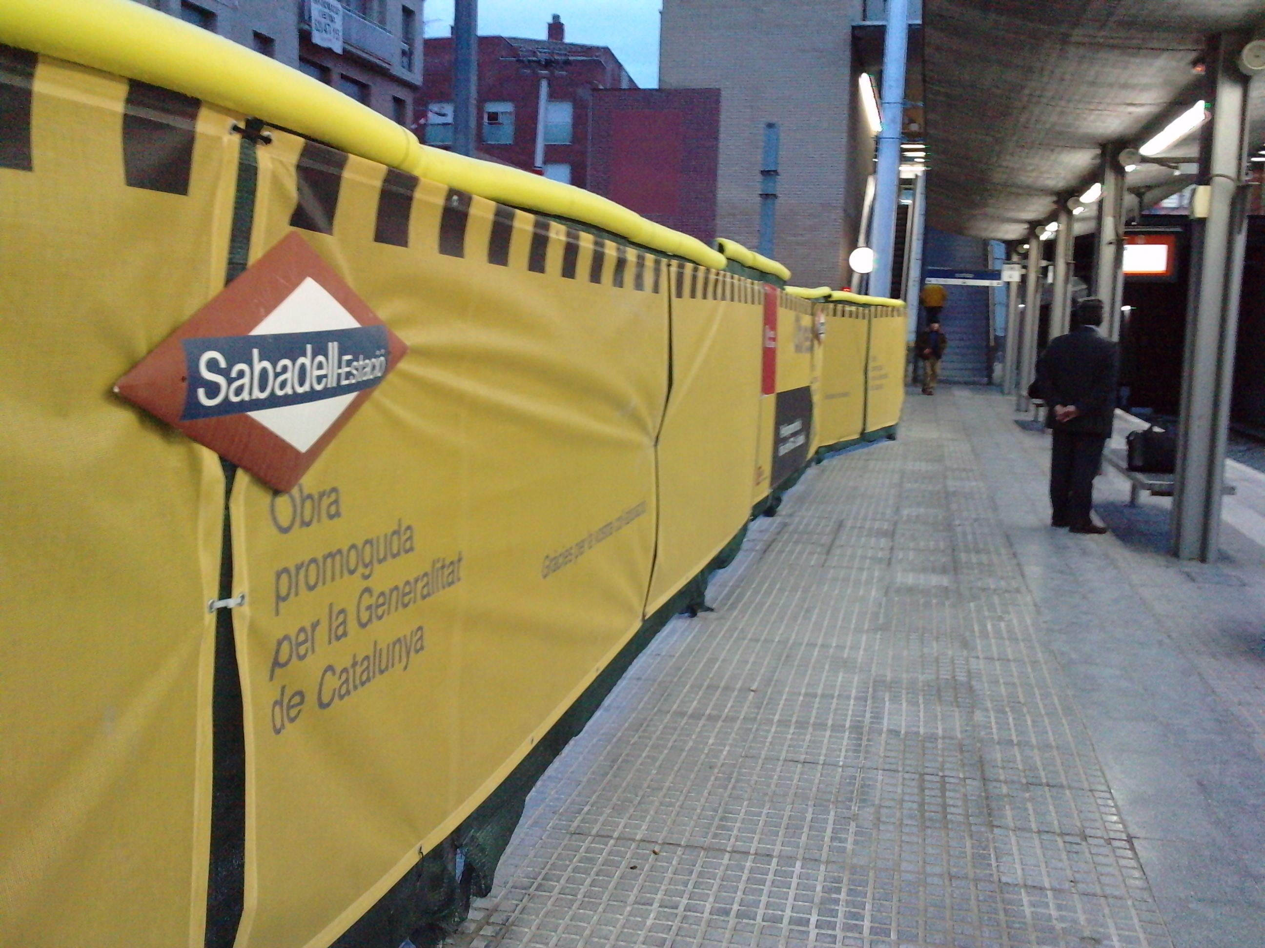 Works on Sabadell Estació Train Station